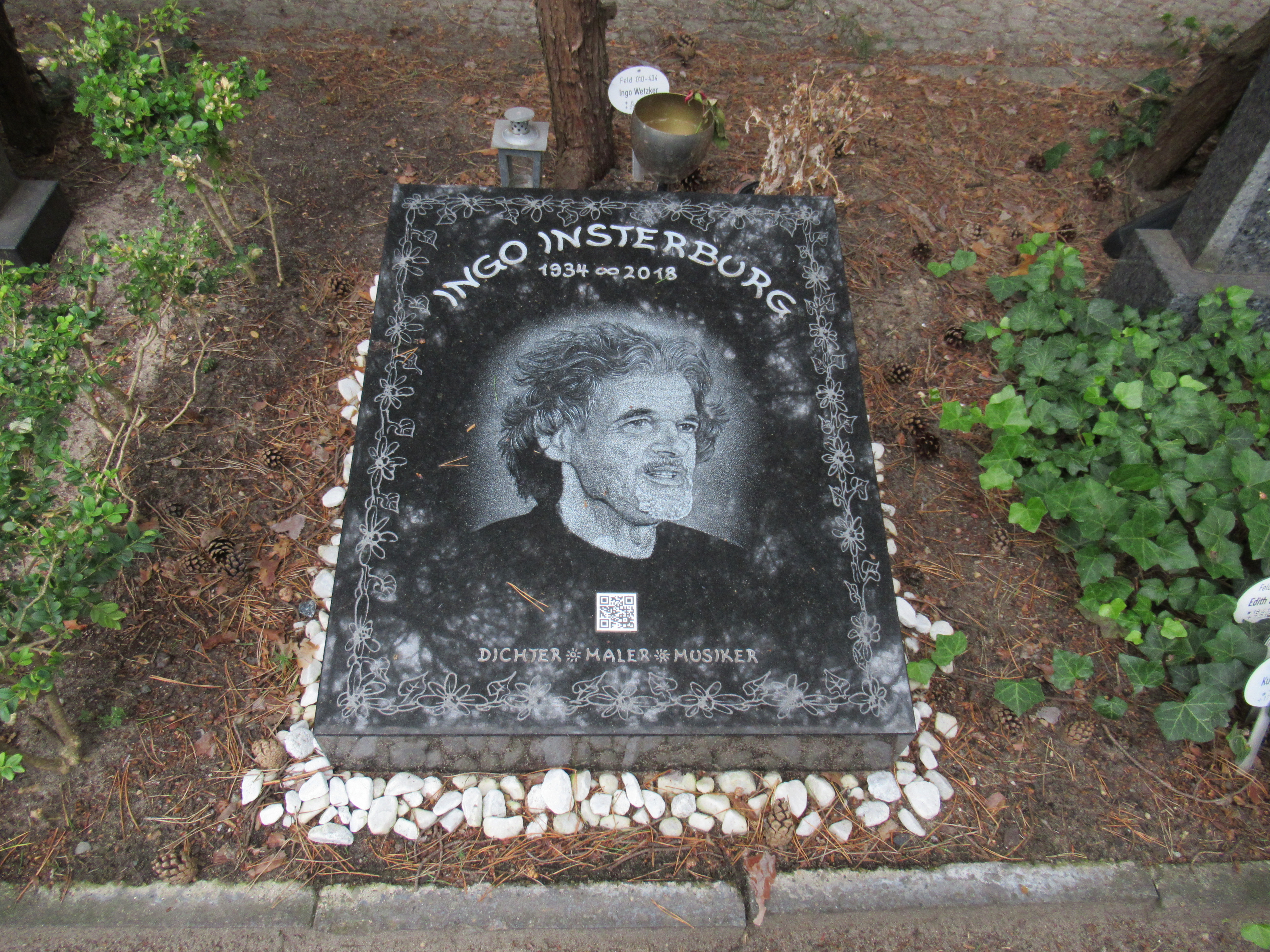 Grave of German cabaret performer/painter/poet/musician Ingo Insterburg at Waldfriedhof Dahlem in Berlin-Dahlem.